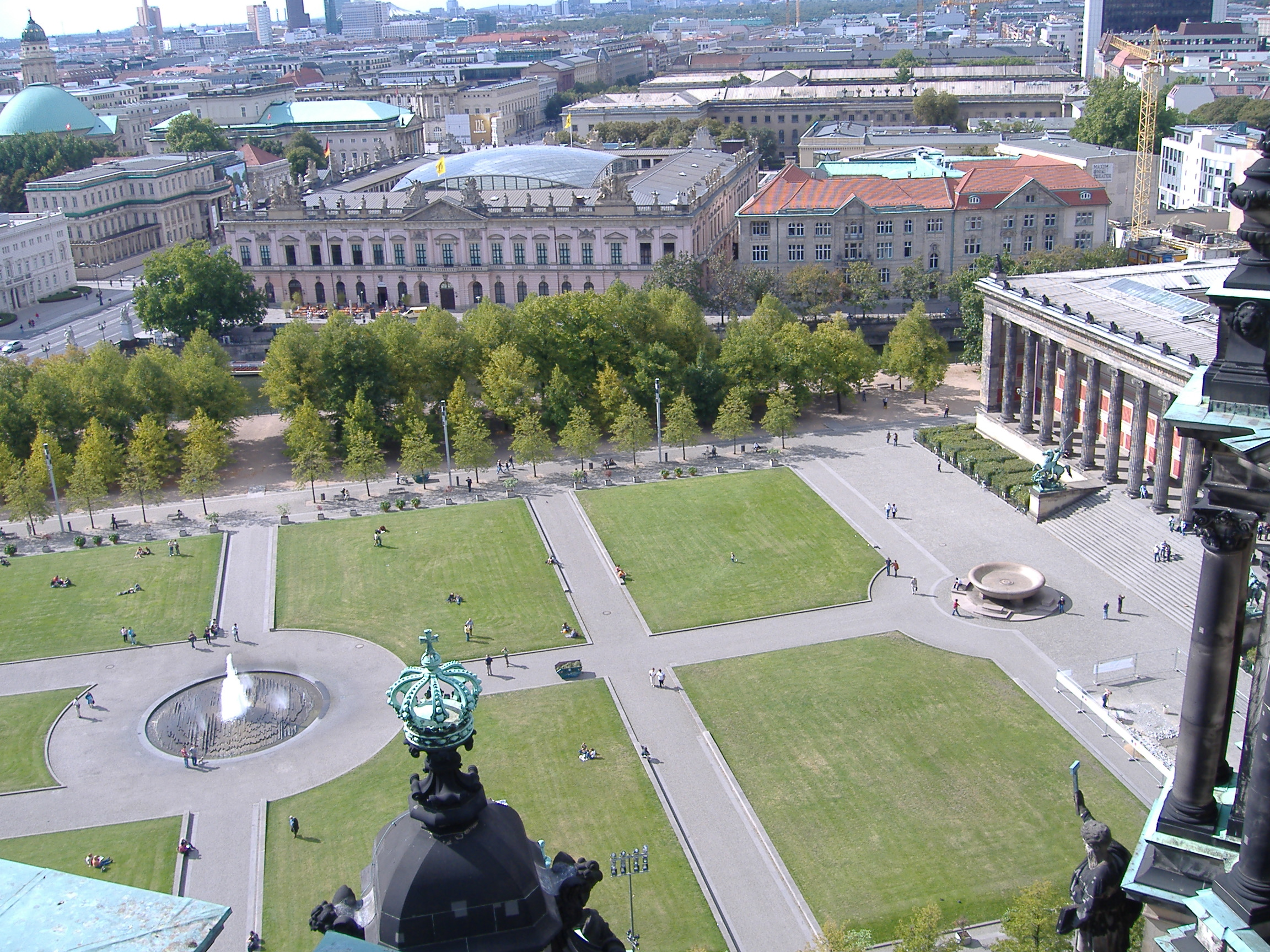 View to the Lustgarten from Berliner Dom